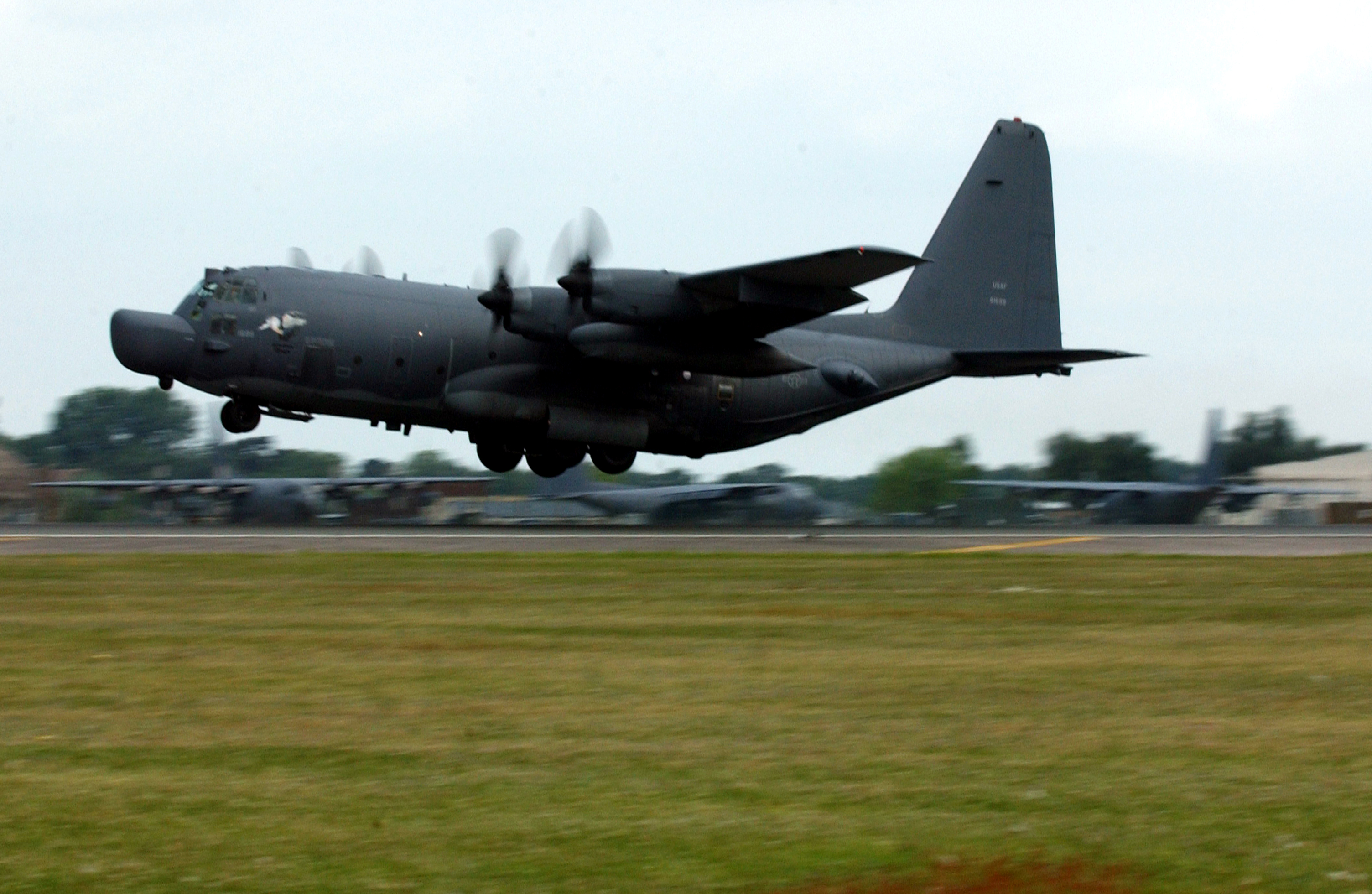 An MC-130H Combat Talon II takes off from the flightline here May 20. The MC-130H is assigned to the 352nd Special Operations Group at Royal Air Force Mildenhall, England.